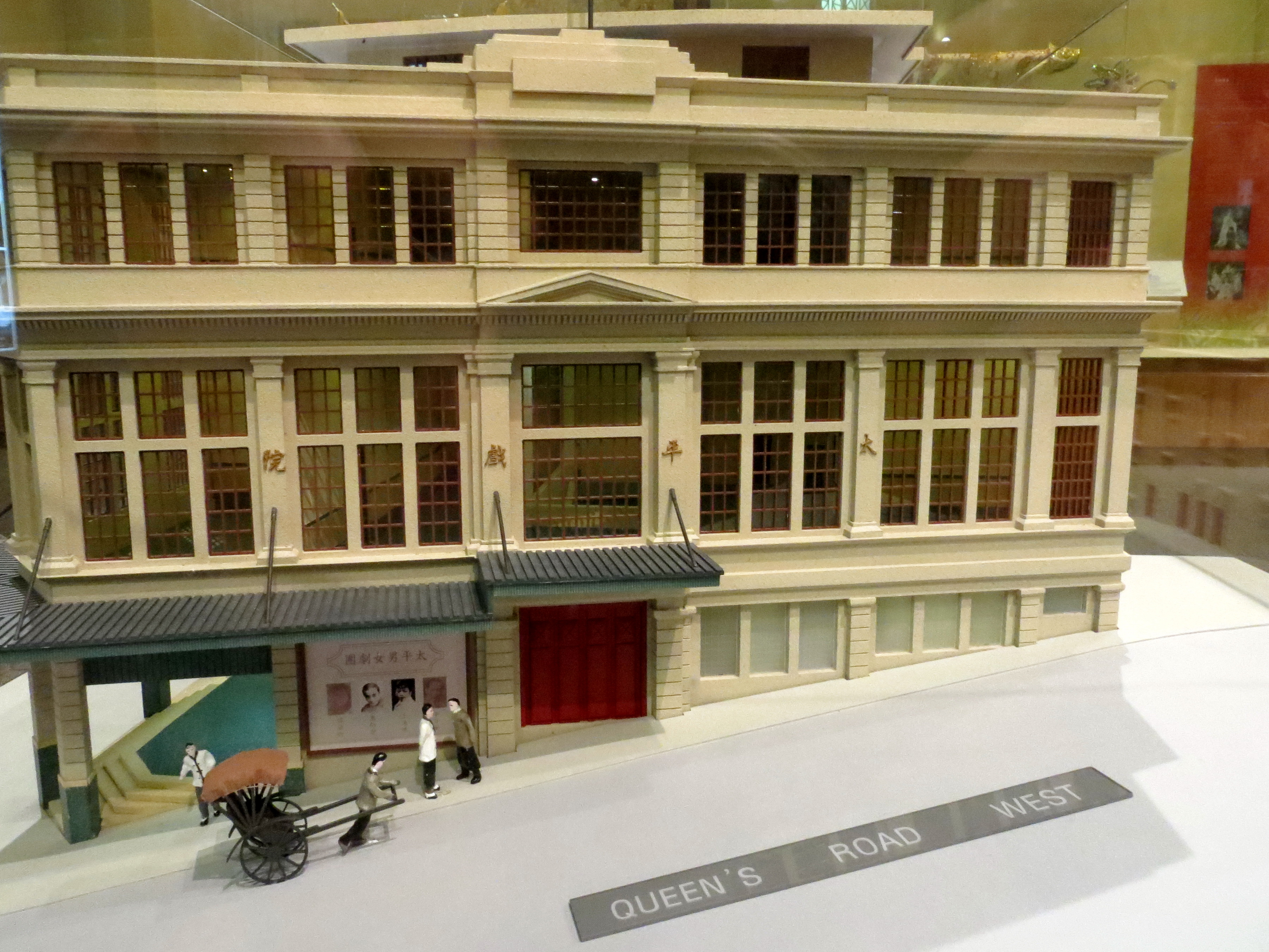 Model of the Tai Ping Theatre, 1930s. An exhibit at the Hong Kong Heritage Museum. Scale 1:50.